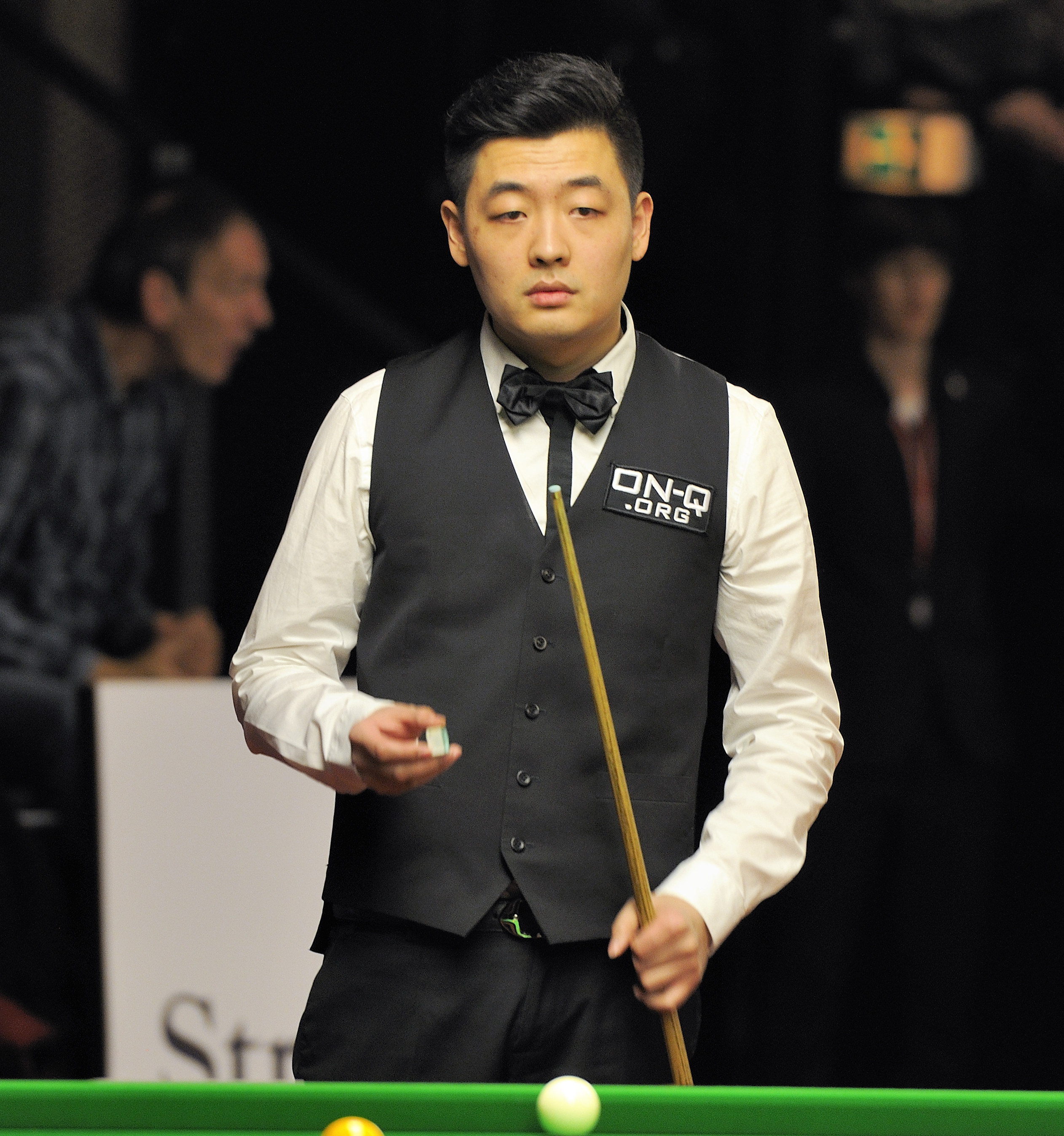 Picture taken in Berlin during the Snooker German Masters in 2014. Tian Pengfei.